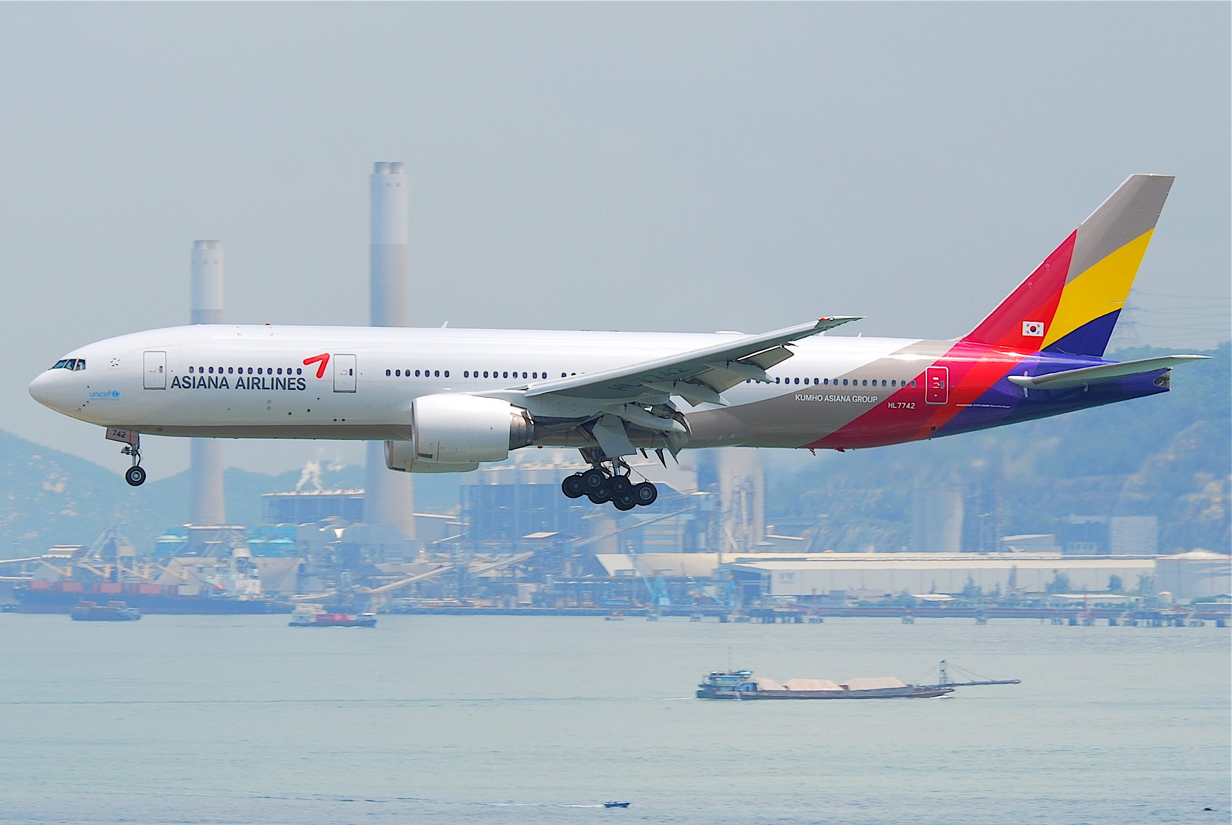 Asiana Airlines Boeing 777-200ER (HL7742) landing at Hong Kong International Airport.